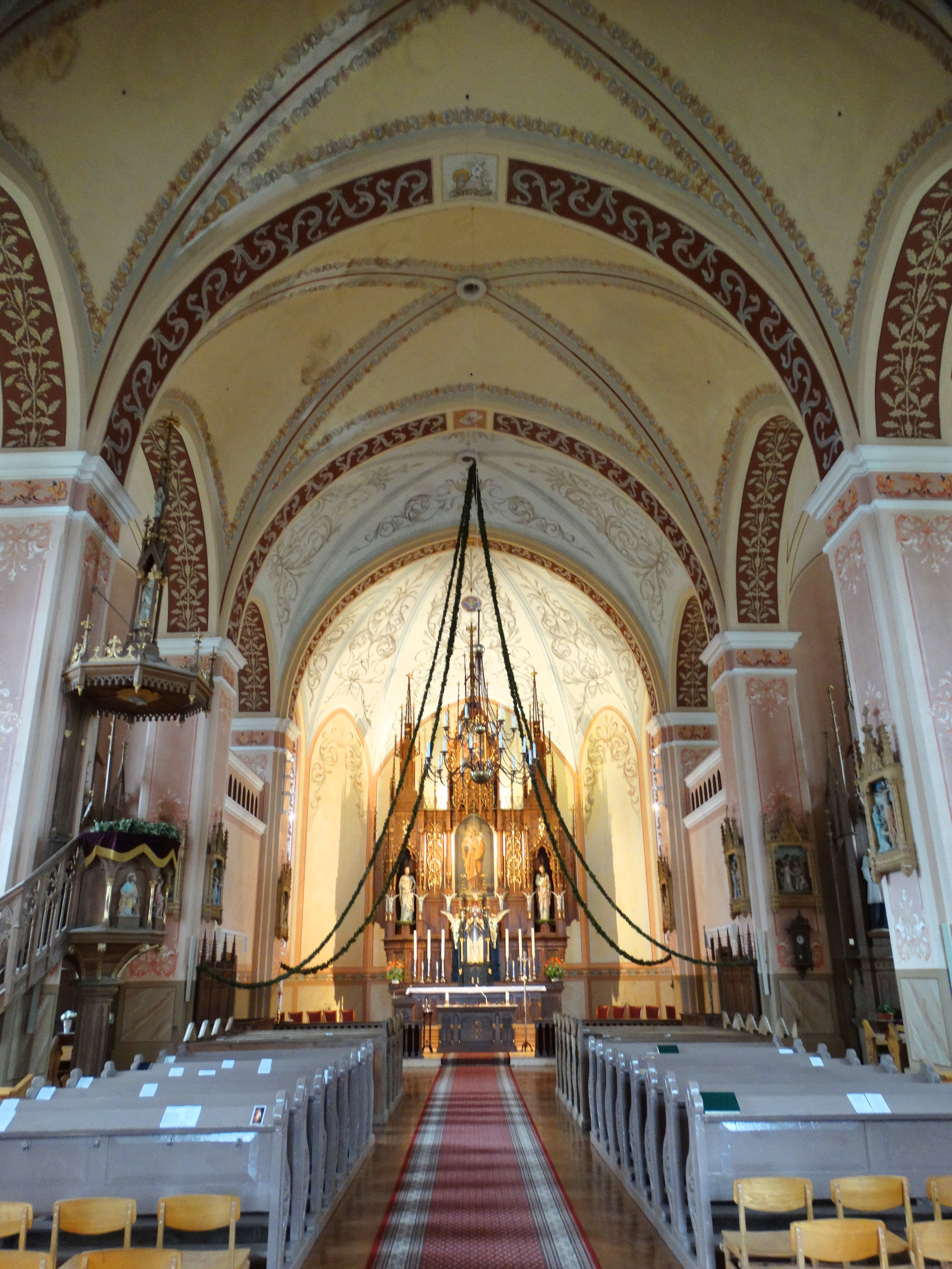 Saint Joseph church, Leliūnai, Utena district, Lithuania